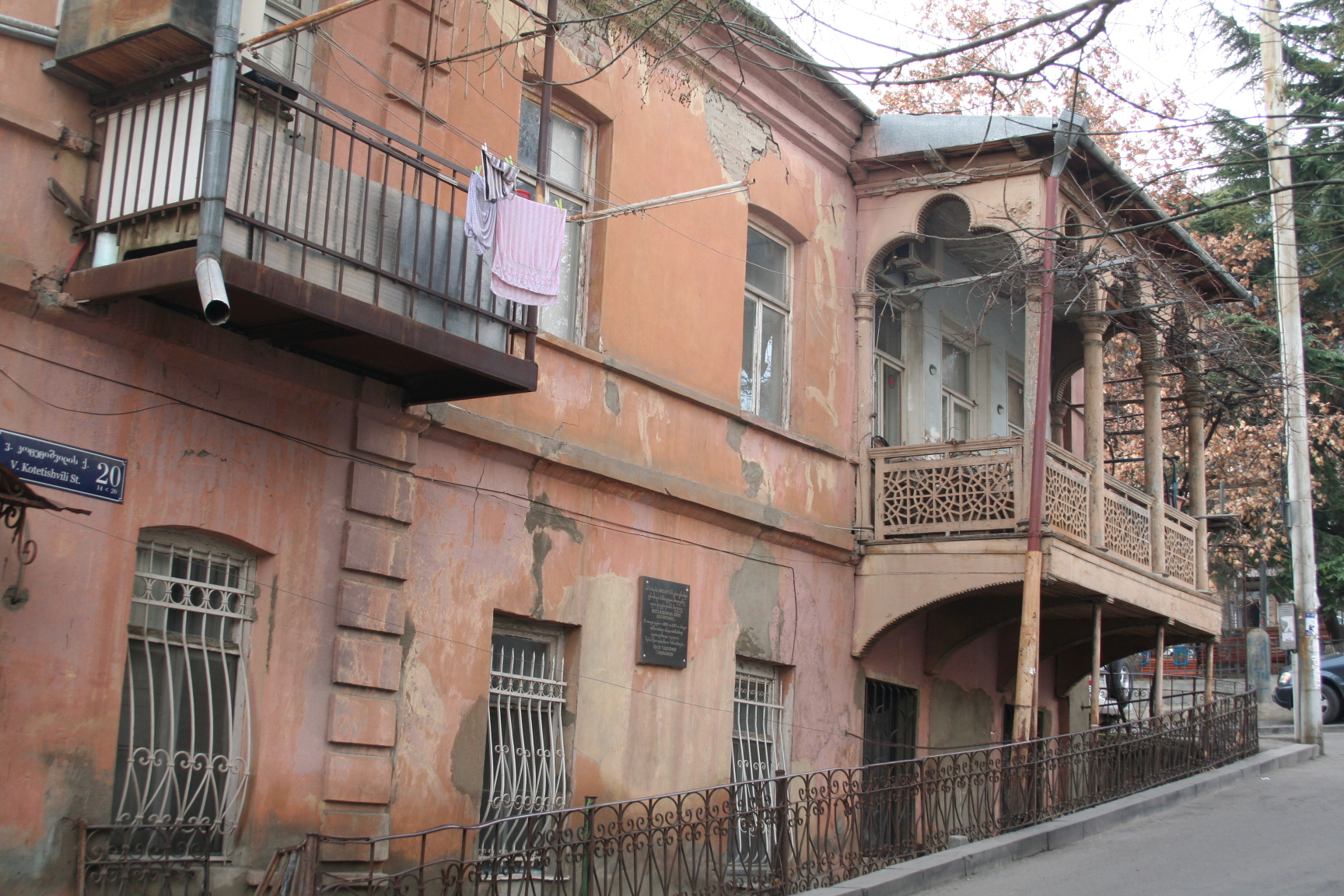 House in Tbilisi where Olga Guramishvili lived